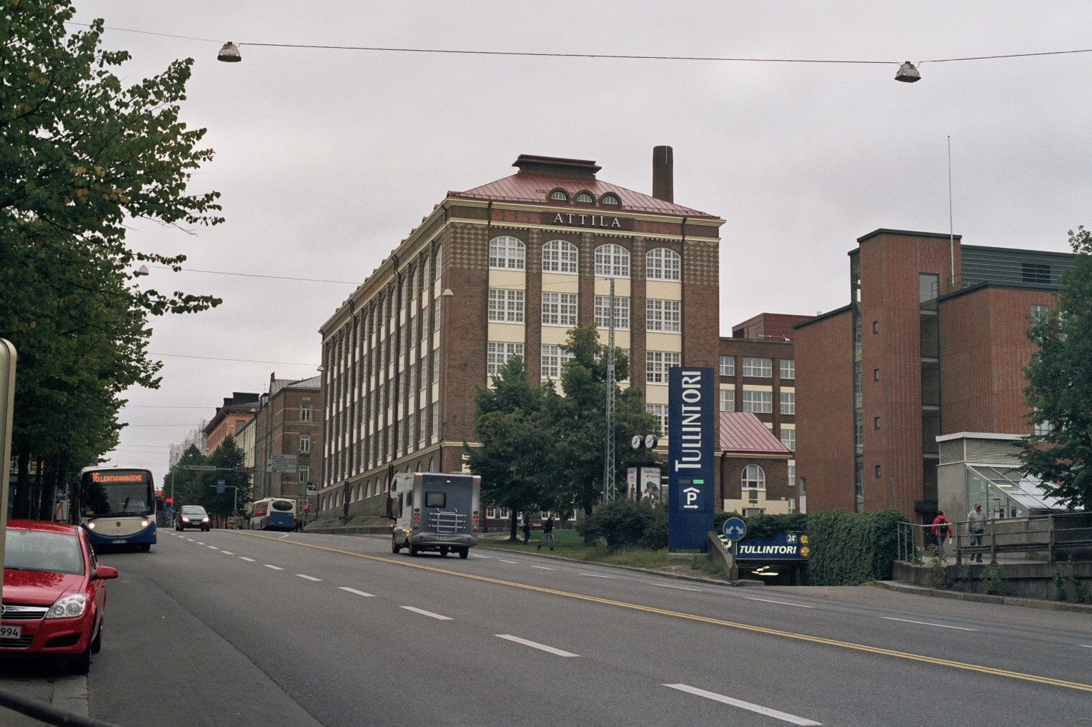 The Itsenäisyydenkatu street in the city of Tampere in Finland. The old building on the middle of the picture was formerly the Attila shoe factory; since then it has served as the main library of the University of Tampere, among others.